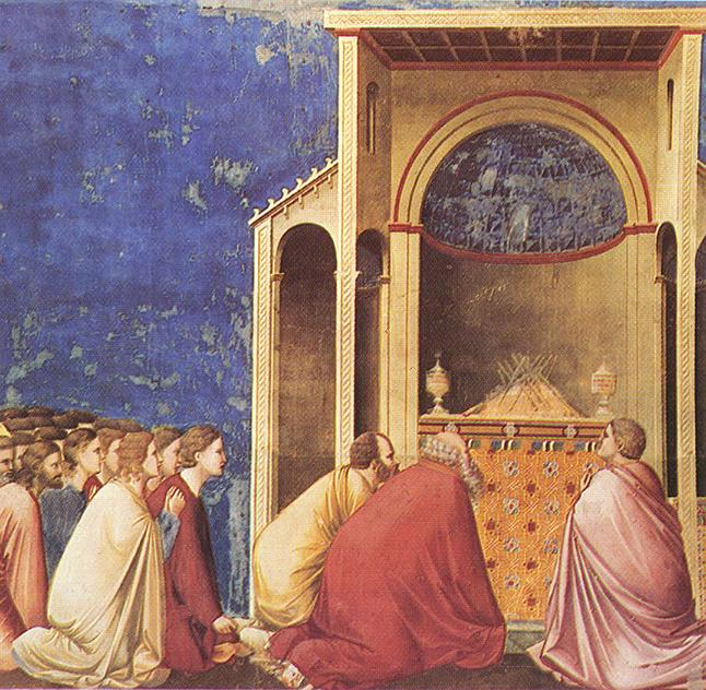 Life of the Virgin